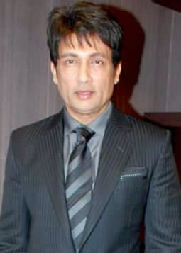 Shekhar Suman at the launch of MM Men store